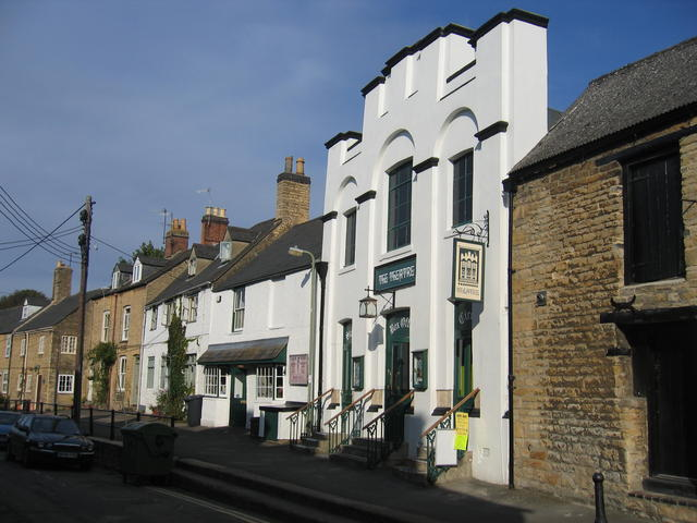 The Theatre, Chipping Norton, Oxfordshire: converted from a non-conformist chapel